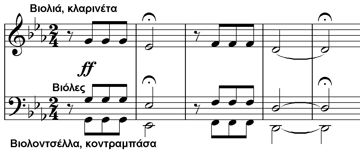 Beethoven, Symphony No. 5